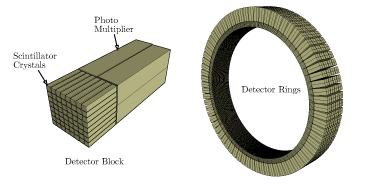 Schematic view of the typical detector system of a positron emission tomograph (here the detector blocks and rings of an ECAT Exact HR+ scanner). It shows a technical view on the detector block with its scintillator crystals and photo multipliers as well as a view on the whole typical detector ring system where thousands of detectors are placed right beside each other.